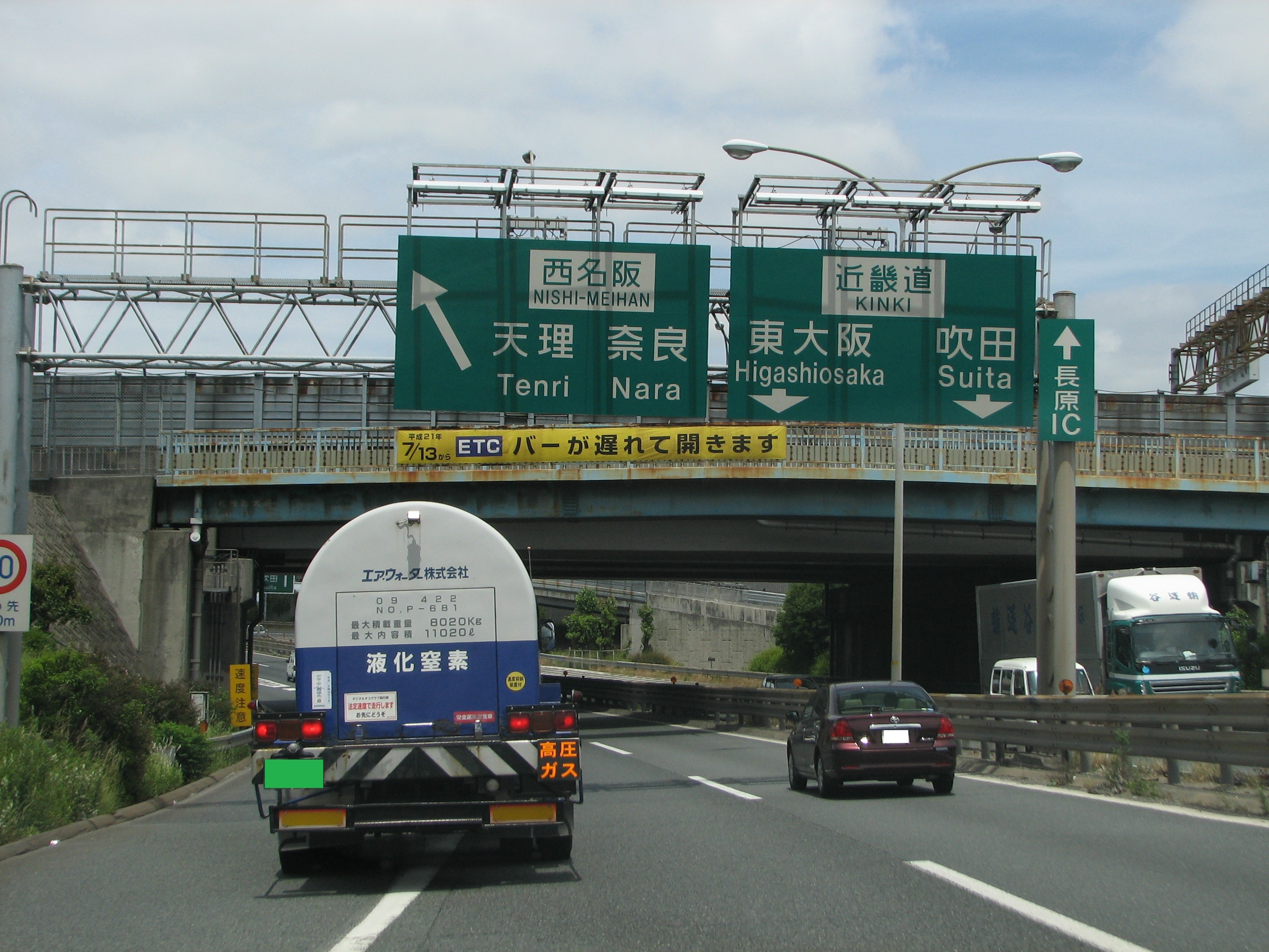 Matsubara JCT (from Hanwa Expressway)